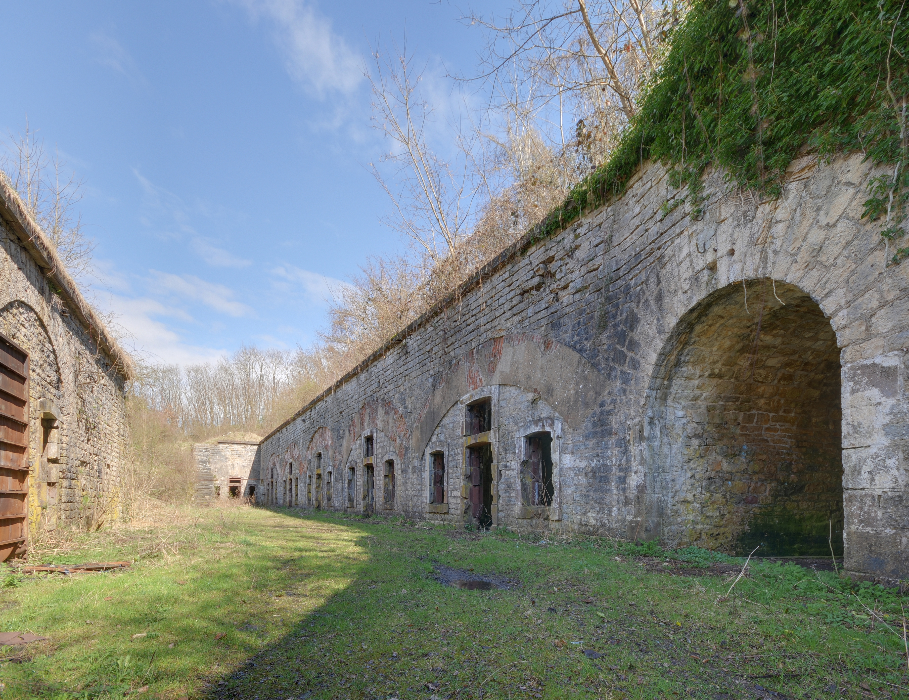 This photograph was taken with a Nikon D300 Fort des Hautes Perches : la cour intérieure (HDR).